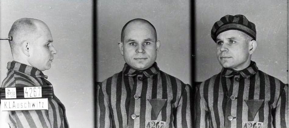 Antoni Kocjan (1902 – 1944) - Polish glider constructor and a contributor to the intelligence services of the Polish Home Army during World War II. Here in Nazi-Germany Concentration Camp KL Auschwitz 1940